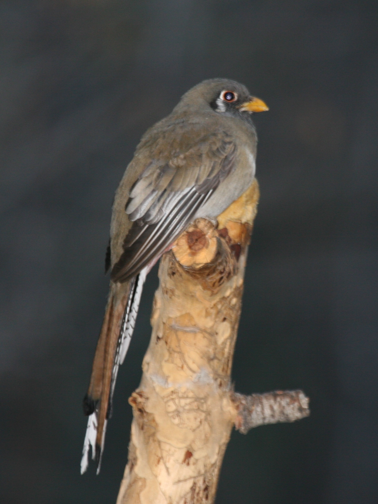 A female Trogon elegans, Elegant Trogon